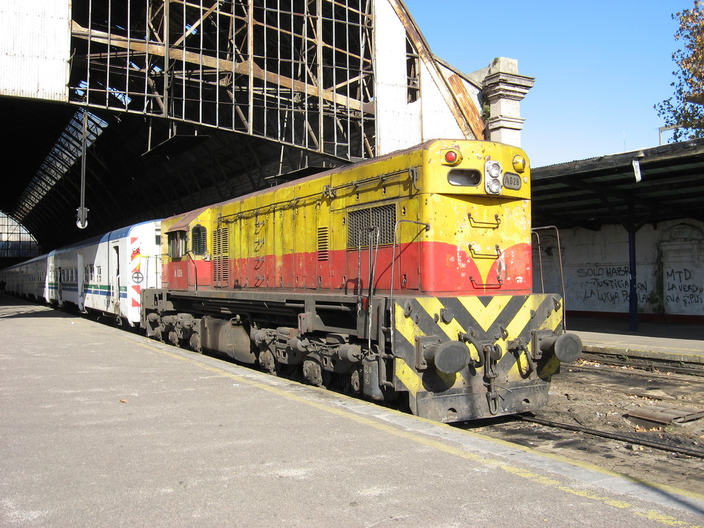 Urban train operated by Metropolitano, with the locomotive (an EMD GR-12) still painted in Ferrocarriles Argentinos corporate colors.